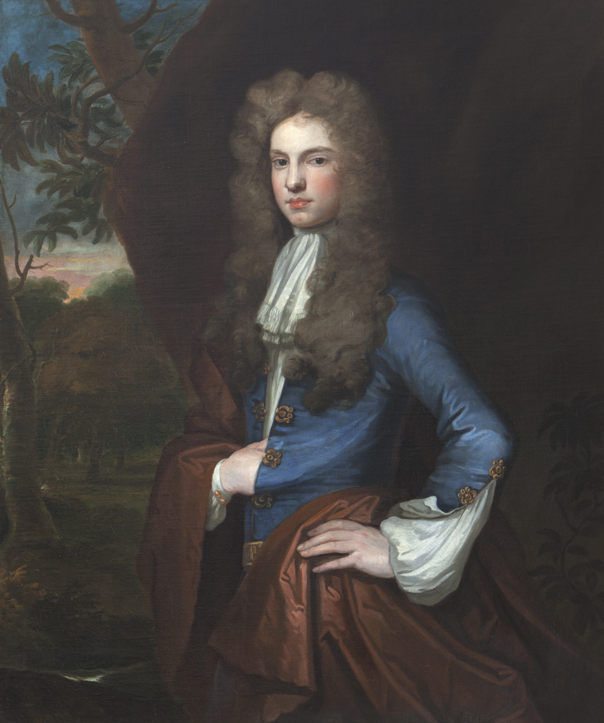 Portrait of Ashe Windham